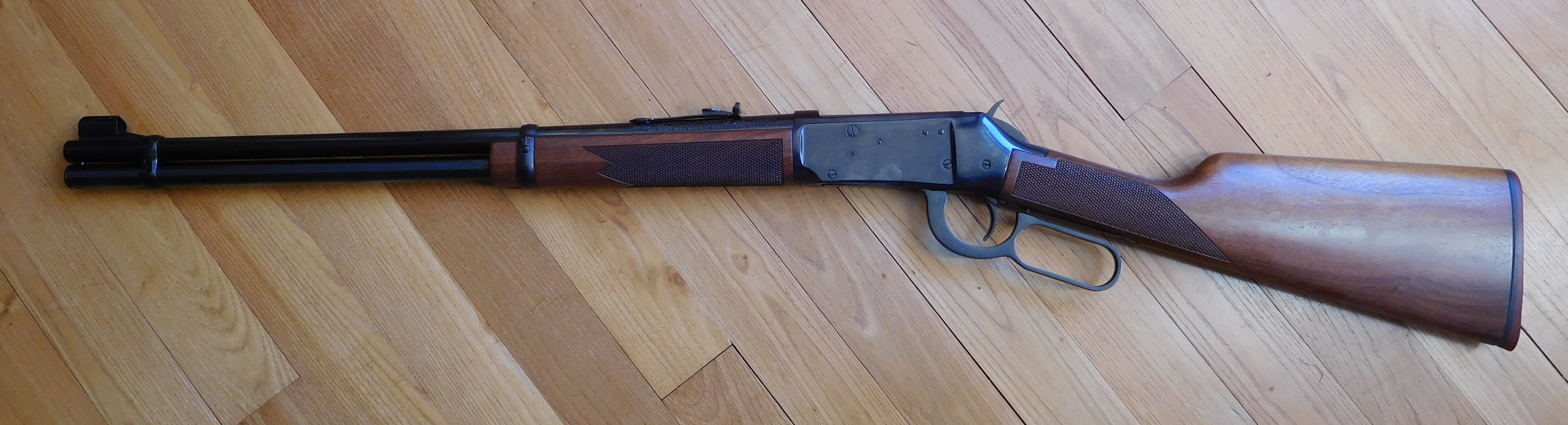 1984 Winchester Big Bore model 94 XTR, caliber .375 Winchester.